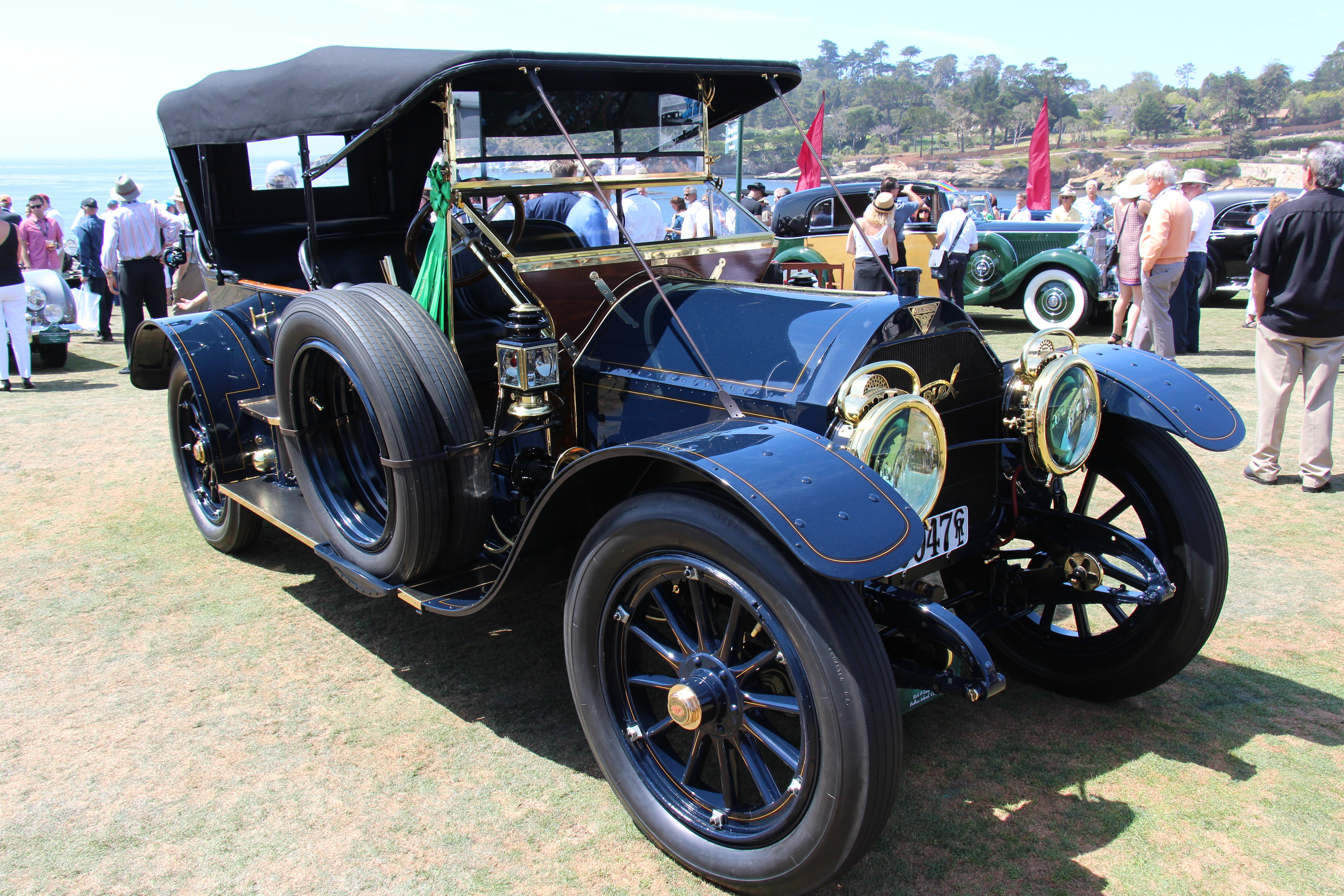 1912 Simplex Model 50 Toy Tonneau by Quinby. In 1907, the assets of Smith and Mabley, Inc., the original producers of the Simplex, were purchased by Herman Broesel Sr. He was very passionate about racing, so he redesigned the Simplex so it could reach speeds of 90 mph. Affluent members of American society began to buy Simplex cars. Simplex always had the latest body designs. This Toy Tonneau built by J.M. Quinby of New York has a 50 horsepower, 10-liter, 4-cylinder engine and was one of the most expensive motorcars of the Brass Era. Photographed at the 2015 Pebble Beach Concours d'Elegance